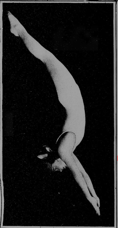 Margaret Stanton, one of the high divers in the 1920 Broadway musical extravaganza "Good Times". Photo also appeared in Jan 23, 1921 edition of New York Tribune